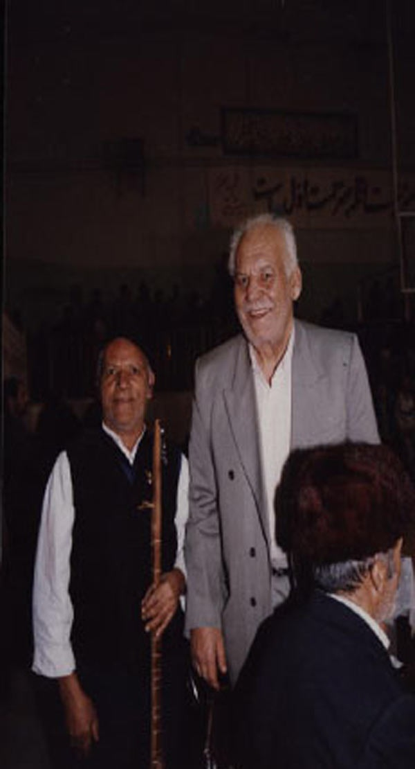 Yaghub-Ali_Shurvarzi.